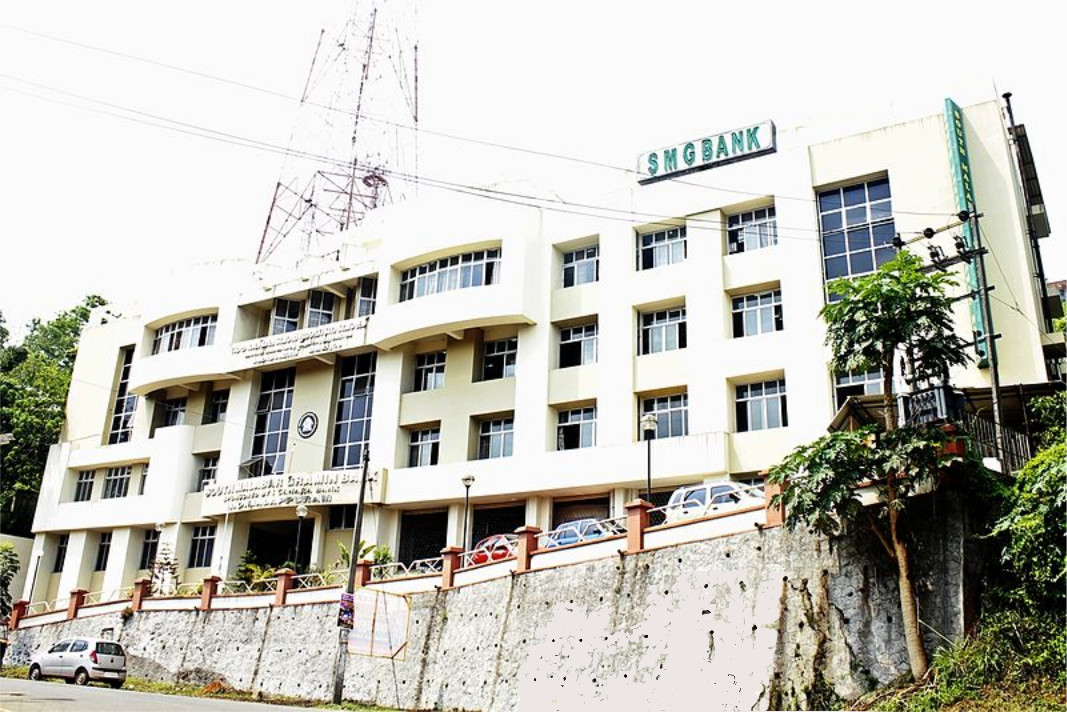 SMG Bank, now called Kerala Gramin Bank, Malappuram